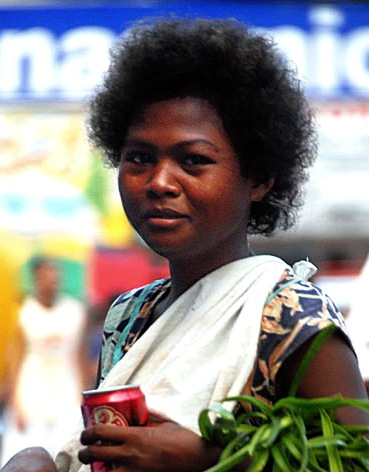 The Aeta (Ati) is one of the native peoples of the Philippines. An Ati (Aeta) woman from the hinterlands of Panay Island in the Philippines.